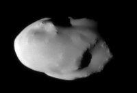 The smooth surface of Saturn's moon Telesto is documented in this image captured during the Cassini spacecraft's Aug. 27, 2009, flyby. See A Closer Look at Telesto to learn more about Telesto's lack of craters. This view looks toward the leading hemisphere of Telesto (25 kilometers, or 16 miles across). North on the moon is up and rotated 3 degrees to the right. The image was taken in visible light with the Cassini spacecraft narrow-angle camera. The view was obtained at a distance of approximately 36,000 kilometers (22,000 miles) from Telesto and at a sun-Telesto-spacecraft, or phase, angle of 48 degrees. Image scale is 214 meters (702 feet) per pixel. The Cassini-Huygens mission is a cooperative project of NASA, the European Space Agency and the Italian Space Agency. The Jet Propulsion Laboratory, a division of the California Institute of Technology in Pasadena, manages the mission for NASA's Science Mission Directorate, Washington, D.C. The Cassini orbiter and its two onboard cameras were designed, developed and assembled at JPL. The imaging operations center is based at the Space Science Institute in Boulder, Colo.